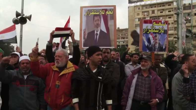 Egyptians go to the polls Saturday in the first day of voting on a controversial new constitution that critics say is too vague on important civil rights issues, and leaves the military in a position of power.